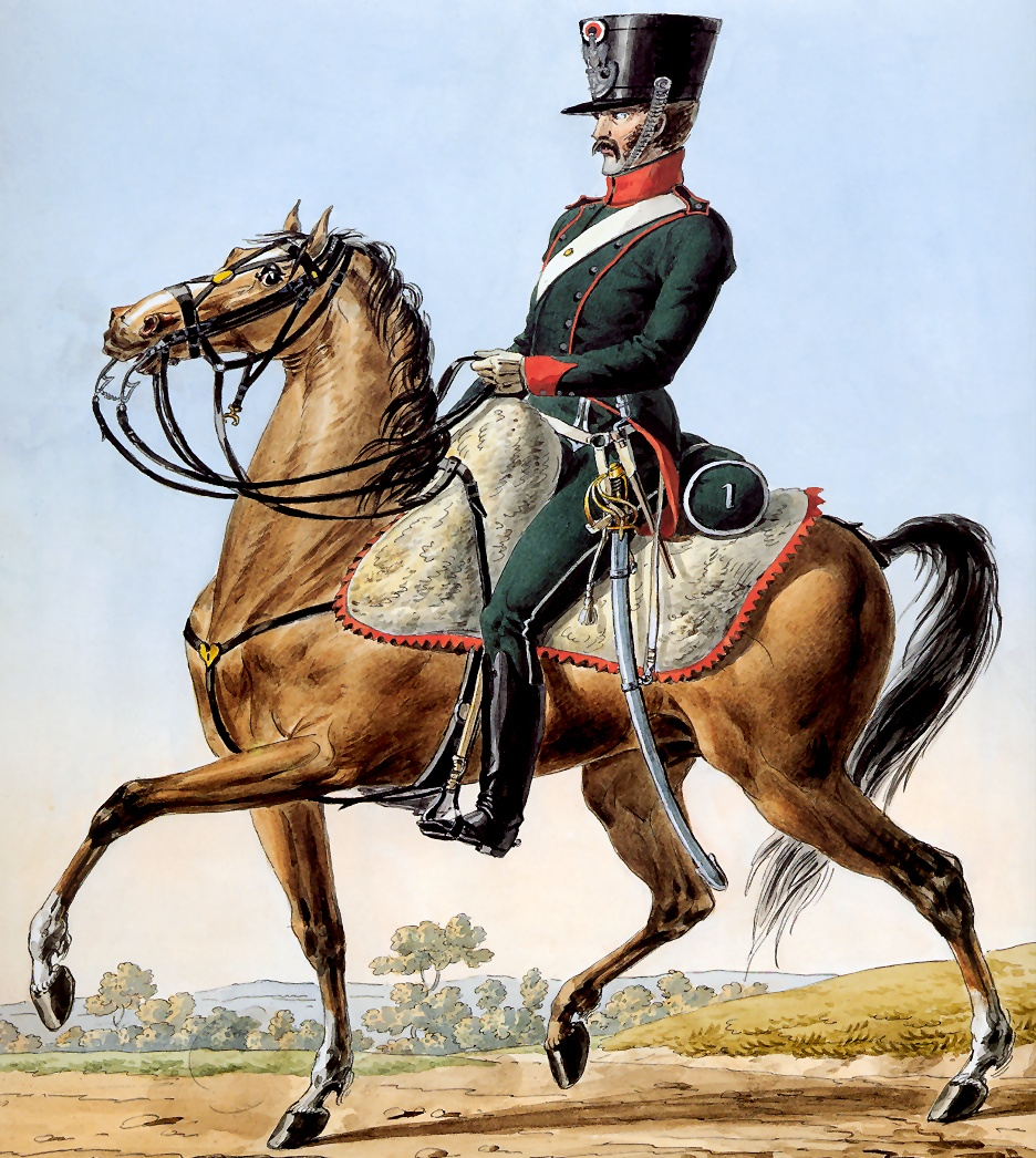 1st Regiment of Chasseurs à Cheval. Part of a series chronicling the uniforms of Napoleon's Grande Armée.